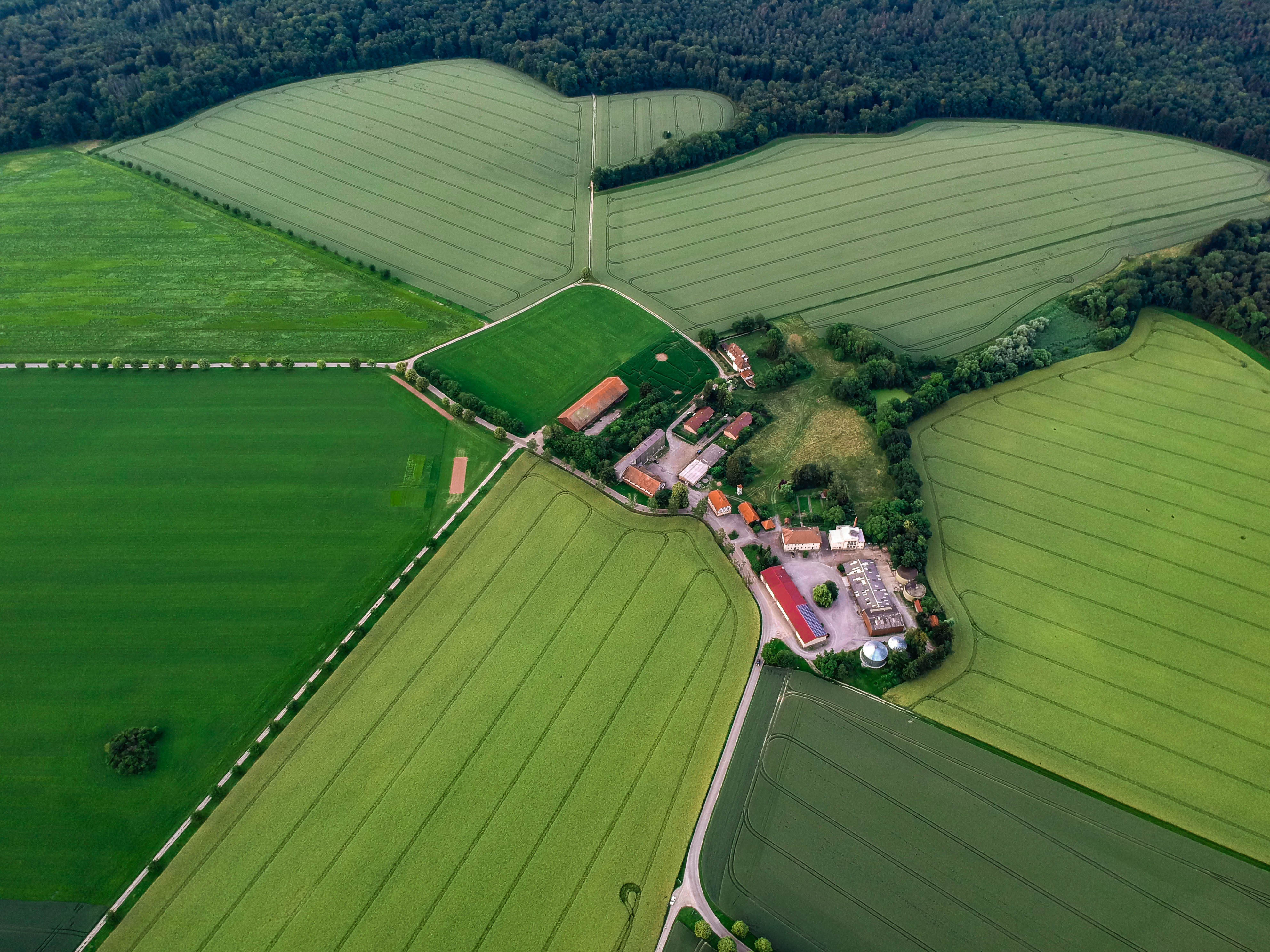 DCIM/100MEDIA/DJI_1464.JPG